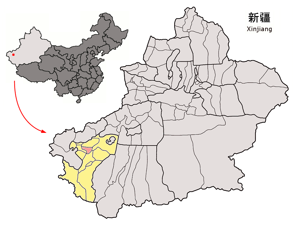 Location of Yopurga County (pink) and Kashgar Prefecture (yellow) within Xinjiang autonomous region of China Map drawn in september 2007 using various sources, mainly : Xinjiang Uygur autonomous region administrative regions GIS data: 1:1M, County level, 1990 Xinjiang Counties map from